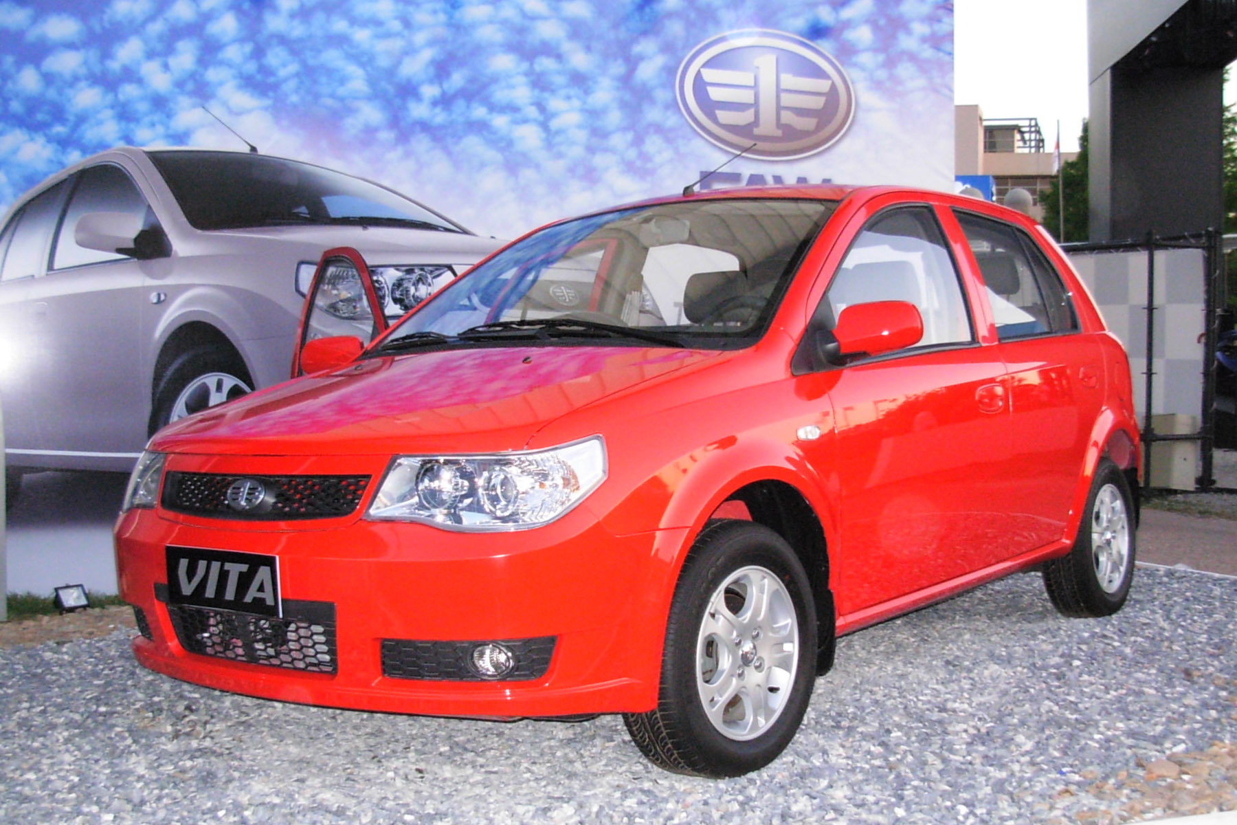 Front view of a FAW Vita at the 2008 Montevideo Motor Show.